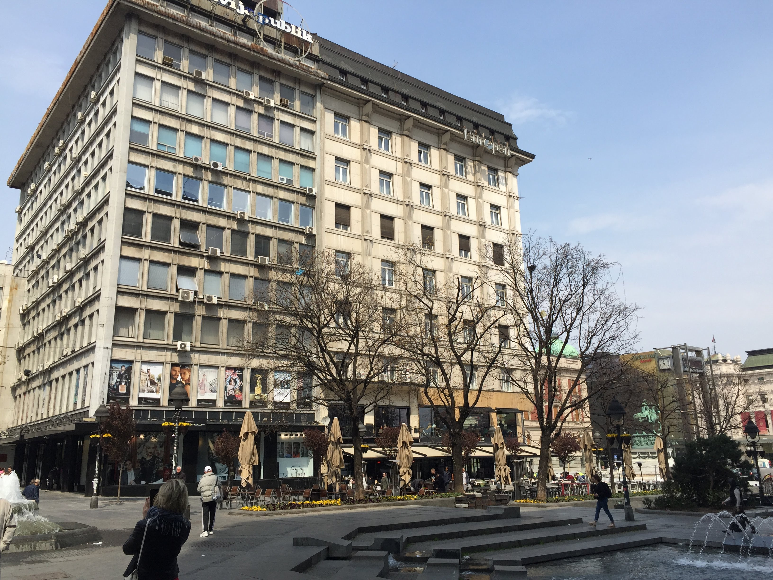 Balgrade "Reuniona" Palace